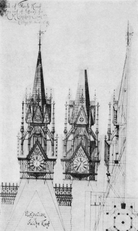 William Pitt's Olderfleet Roof Designs